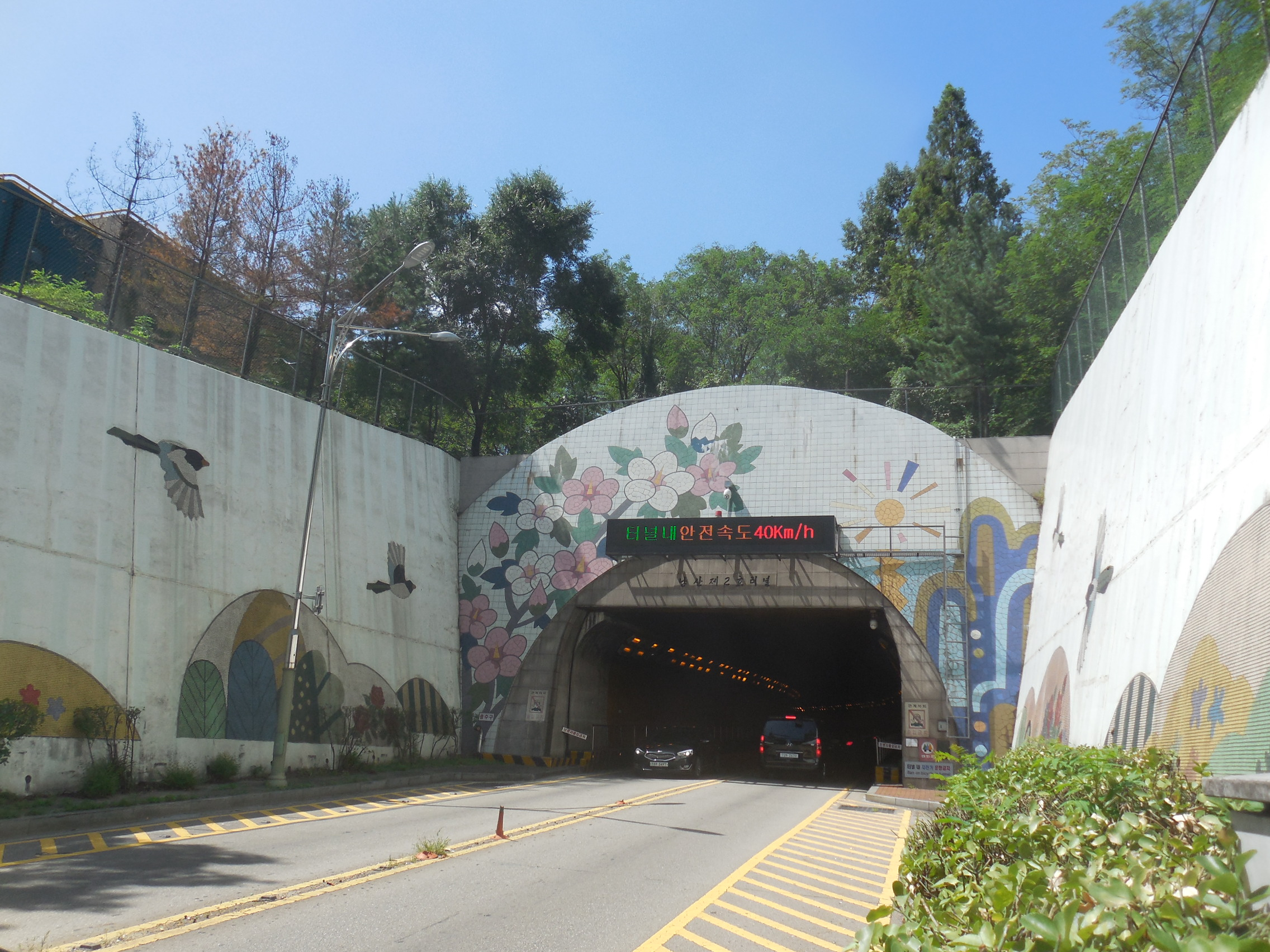 Namsan 2nd Tunnel.